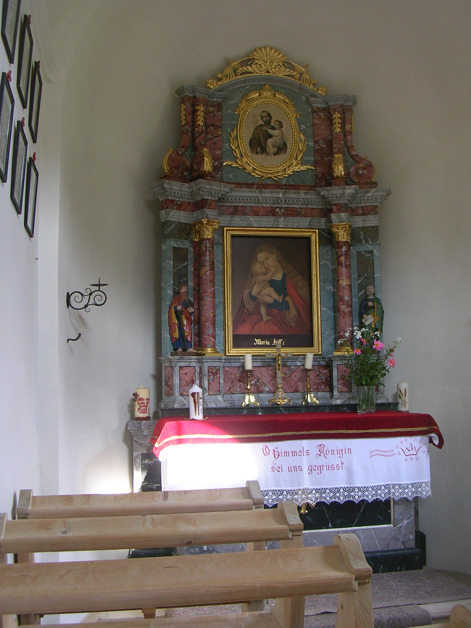 Innenansicht des Lackner Kirchleins beim (Lacknerhof) Glanz 8 This media shows the remarkable cultural object in the Austrian state of Tyrol listed by the Tyrolean Art Cadastre with the ID 16966. (on tirisMaps, pdf, more images on Commons, Wikidata)